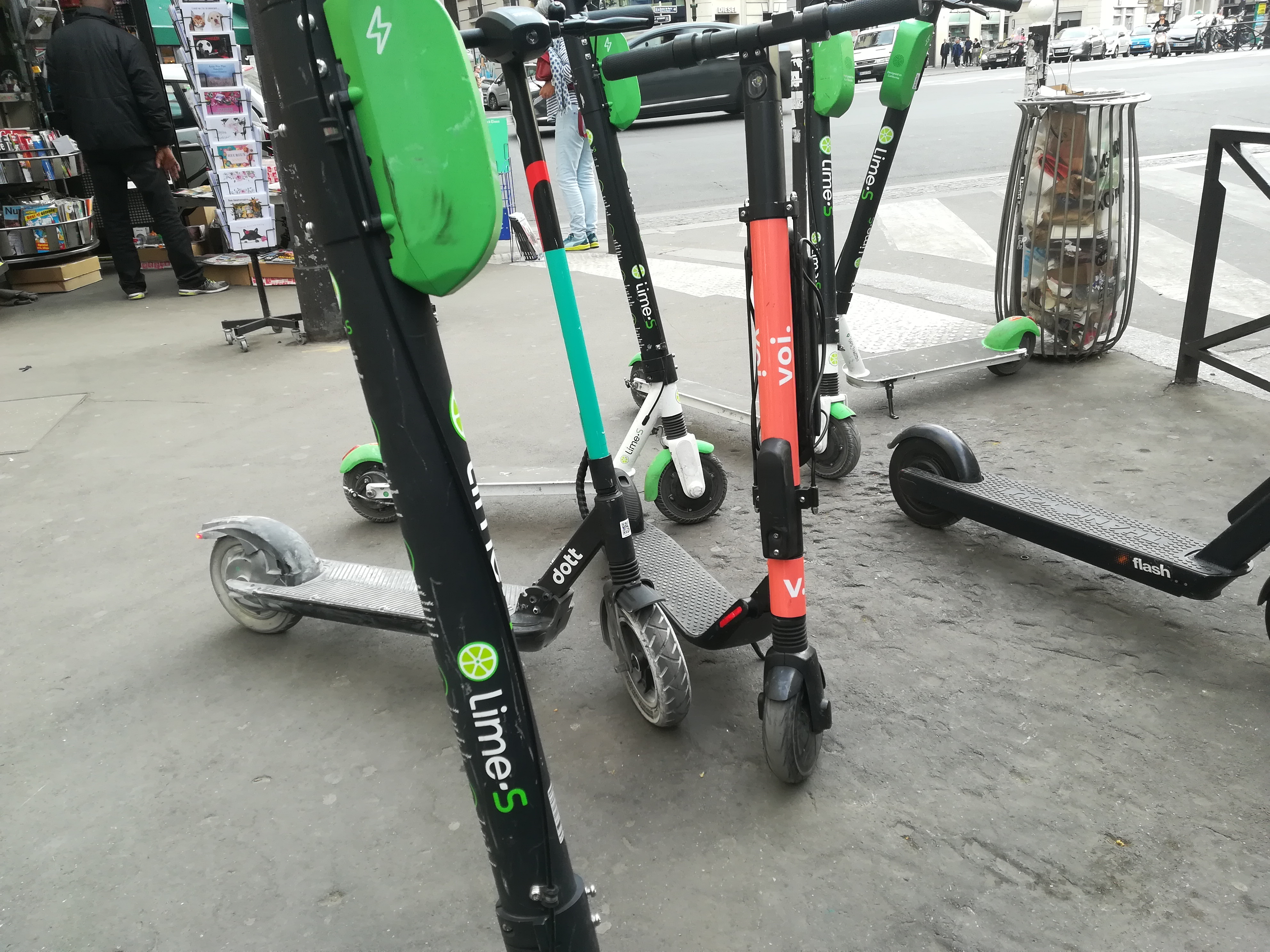 deckless shared scooters - on the sidewalk - Paris